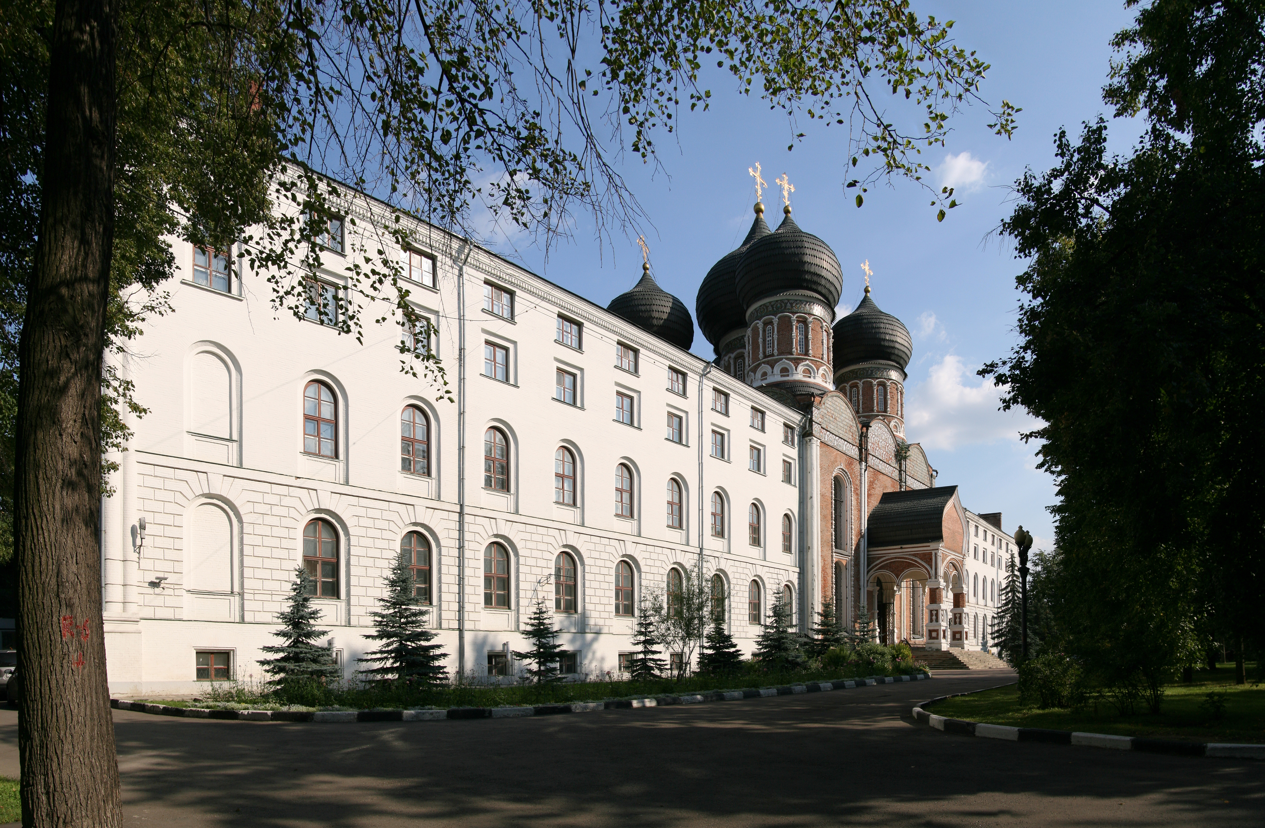 Northern and southern buildings of the military alms house, 1836-1839, Izmaylovo, Moscow